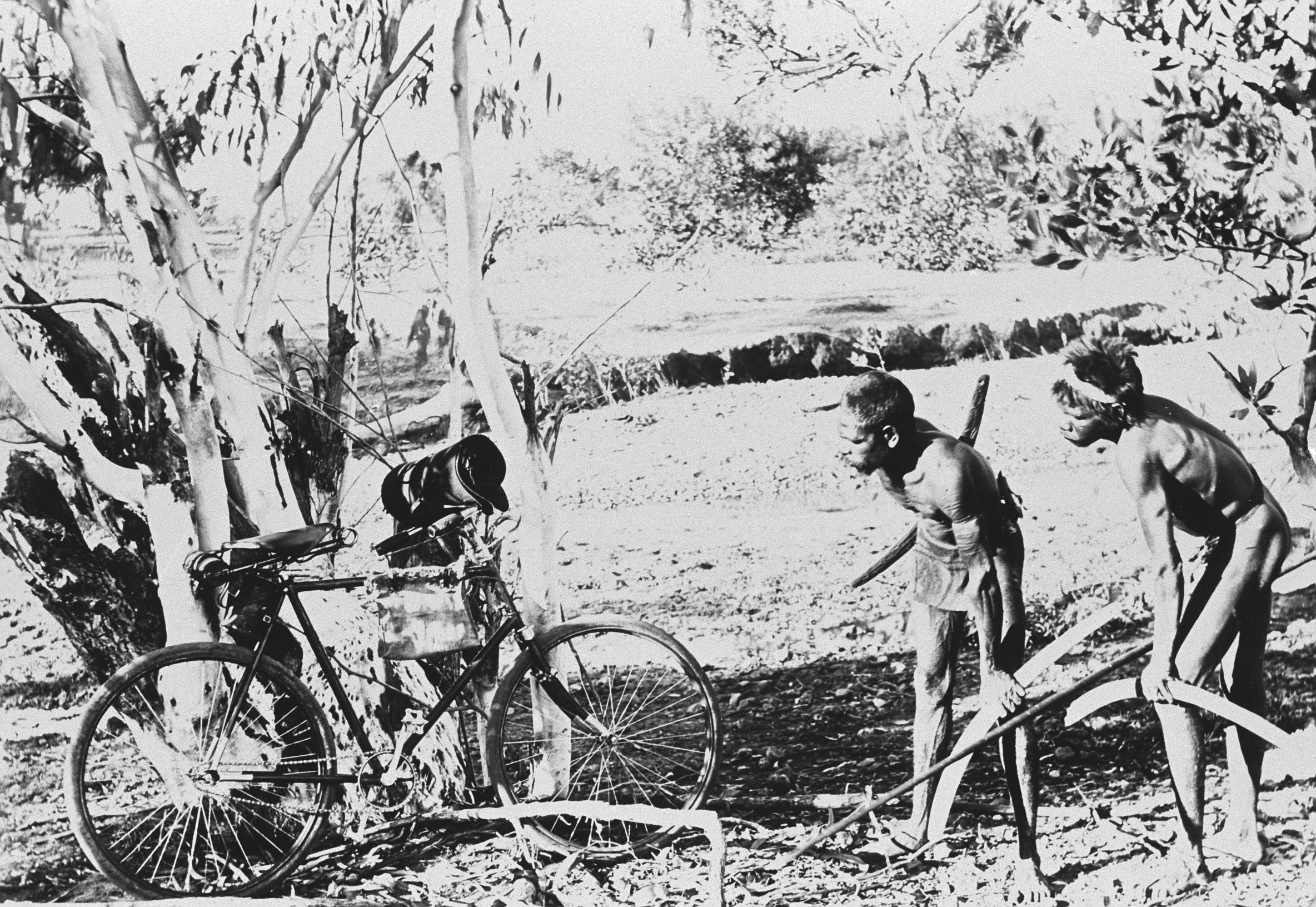 a photograph of the Wertheim Electra bicycle of Australian transcontinental cyclist Jerome J. Murif, being inspected by two indigenous aboriginals on Dalhousie Station, Northern Territory (1897), description sourced from [1]